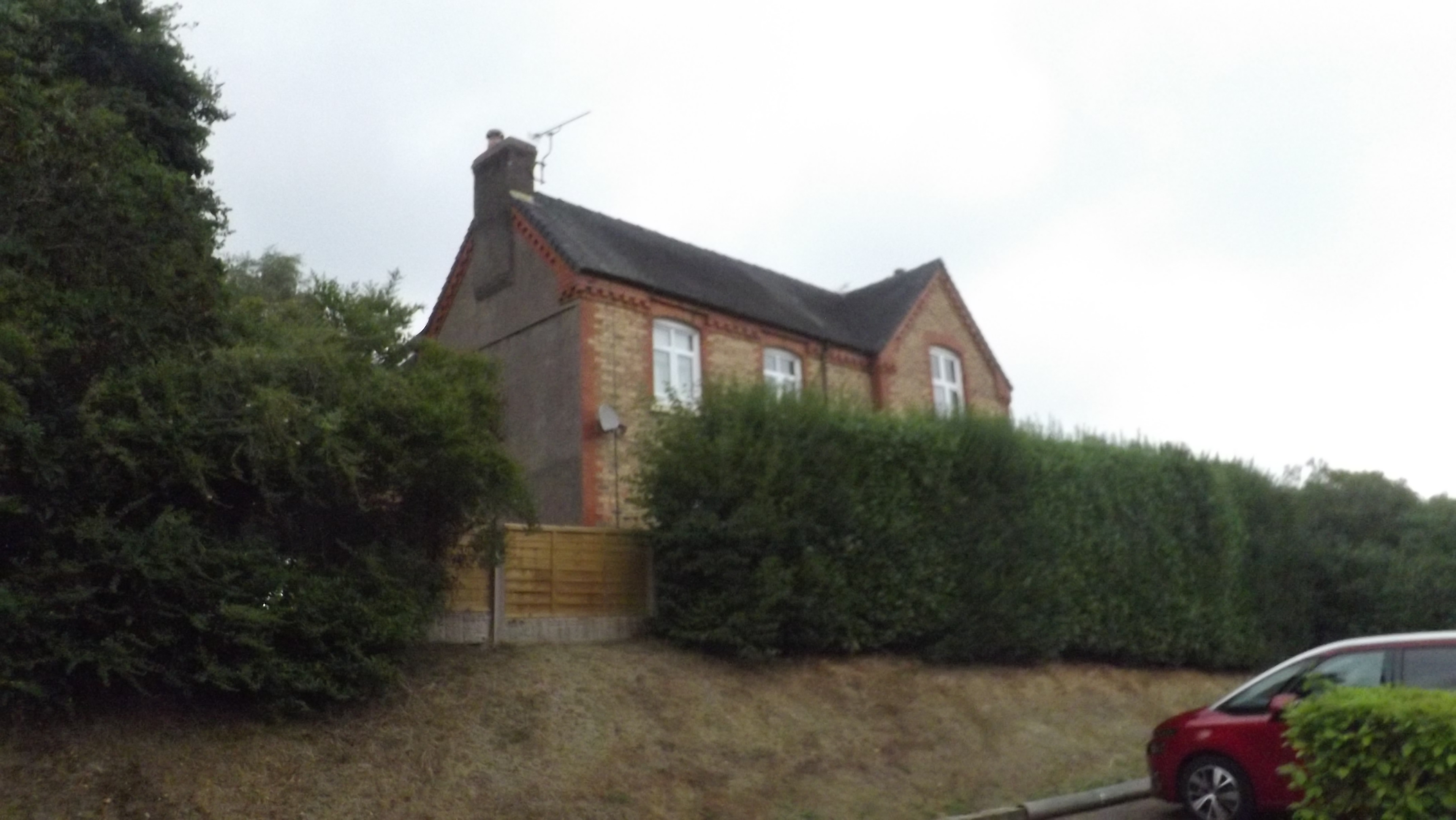 My own